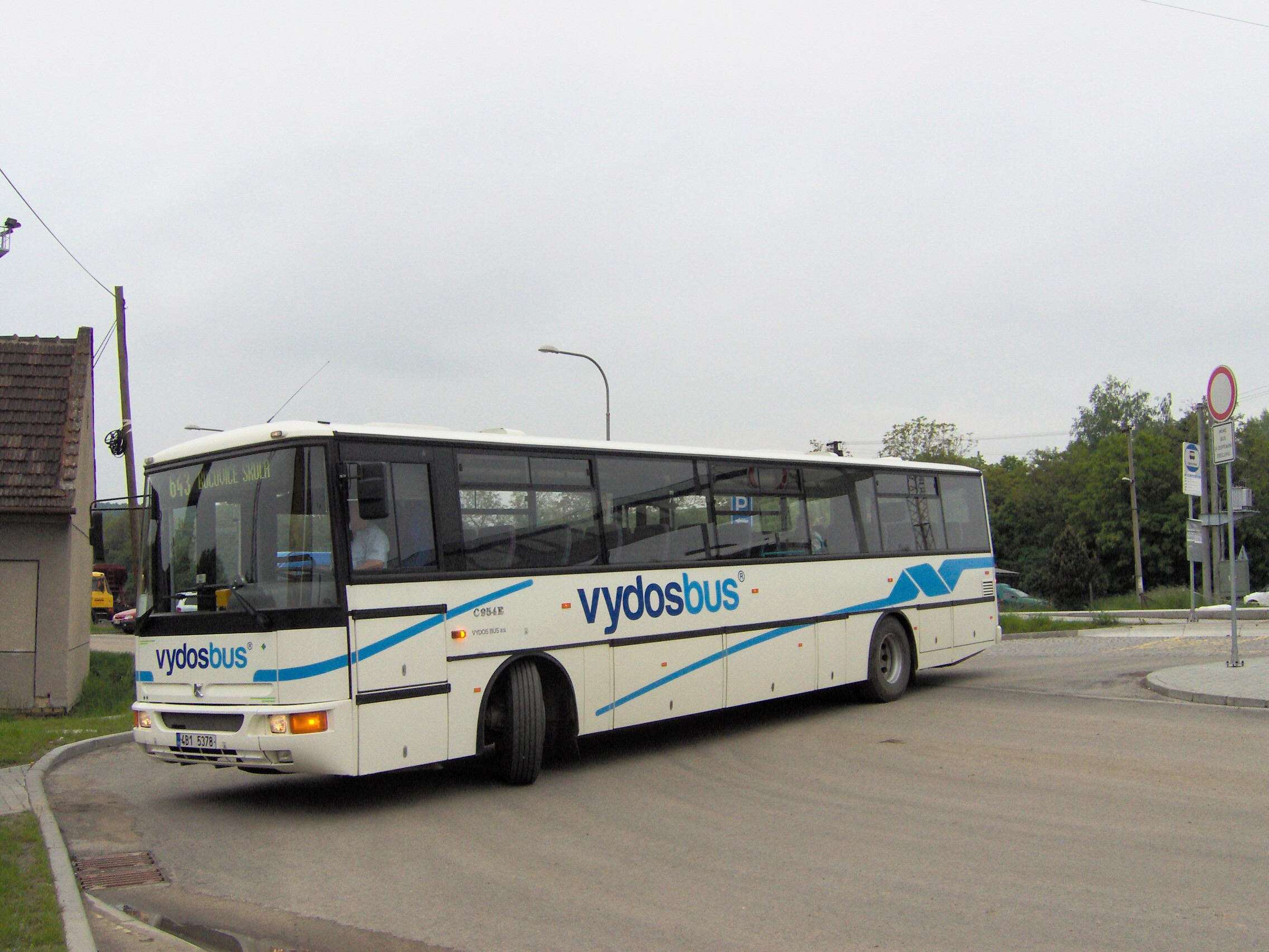 Karosa C 954E bus of Vydos Bus, Nesovice, Czech Republic